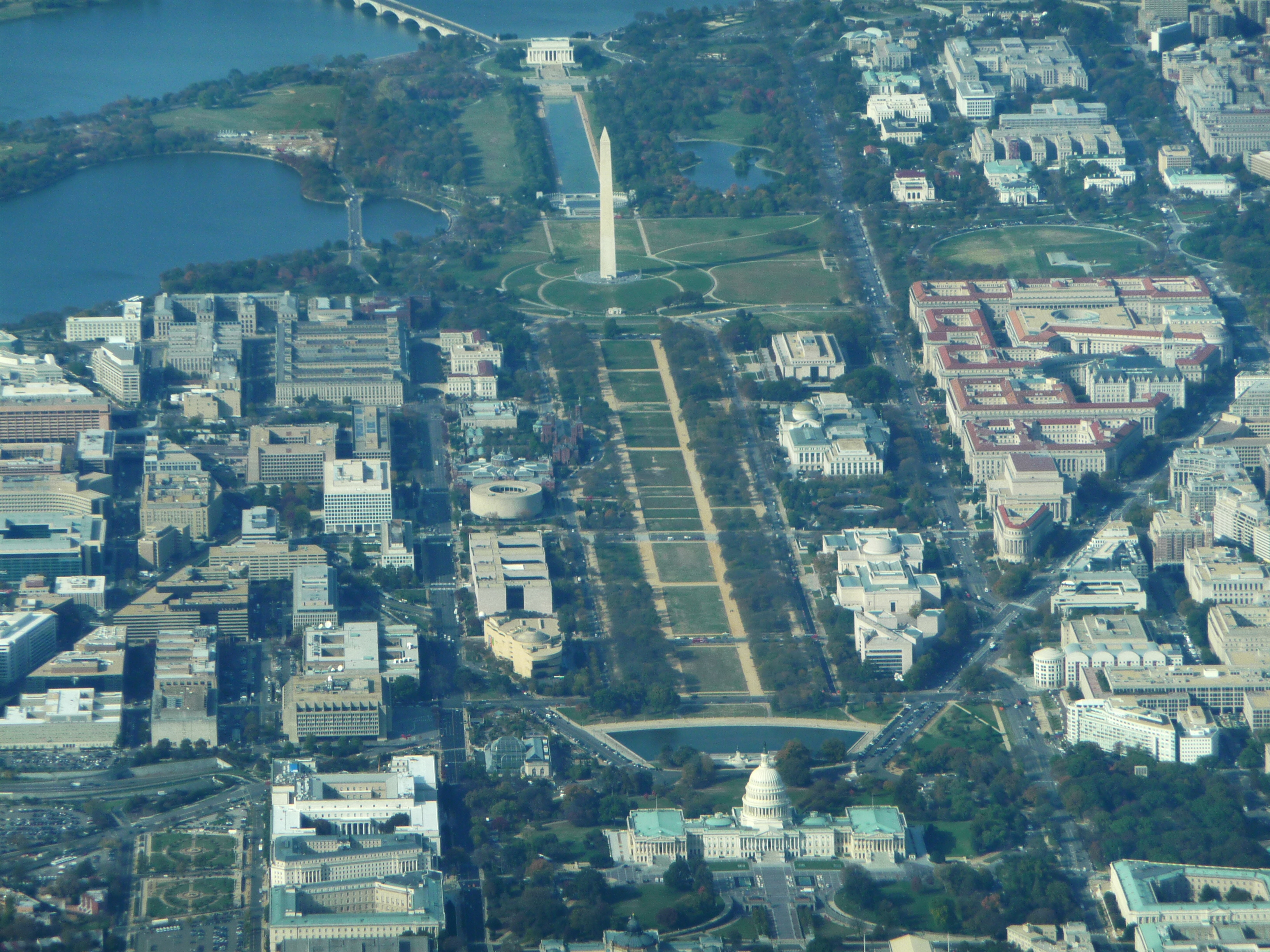 The National Mall looking to the west.